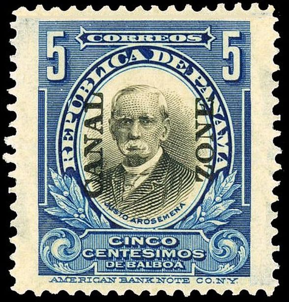 Canal Zone, Arosemena, 5c, 1909 Issue